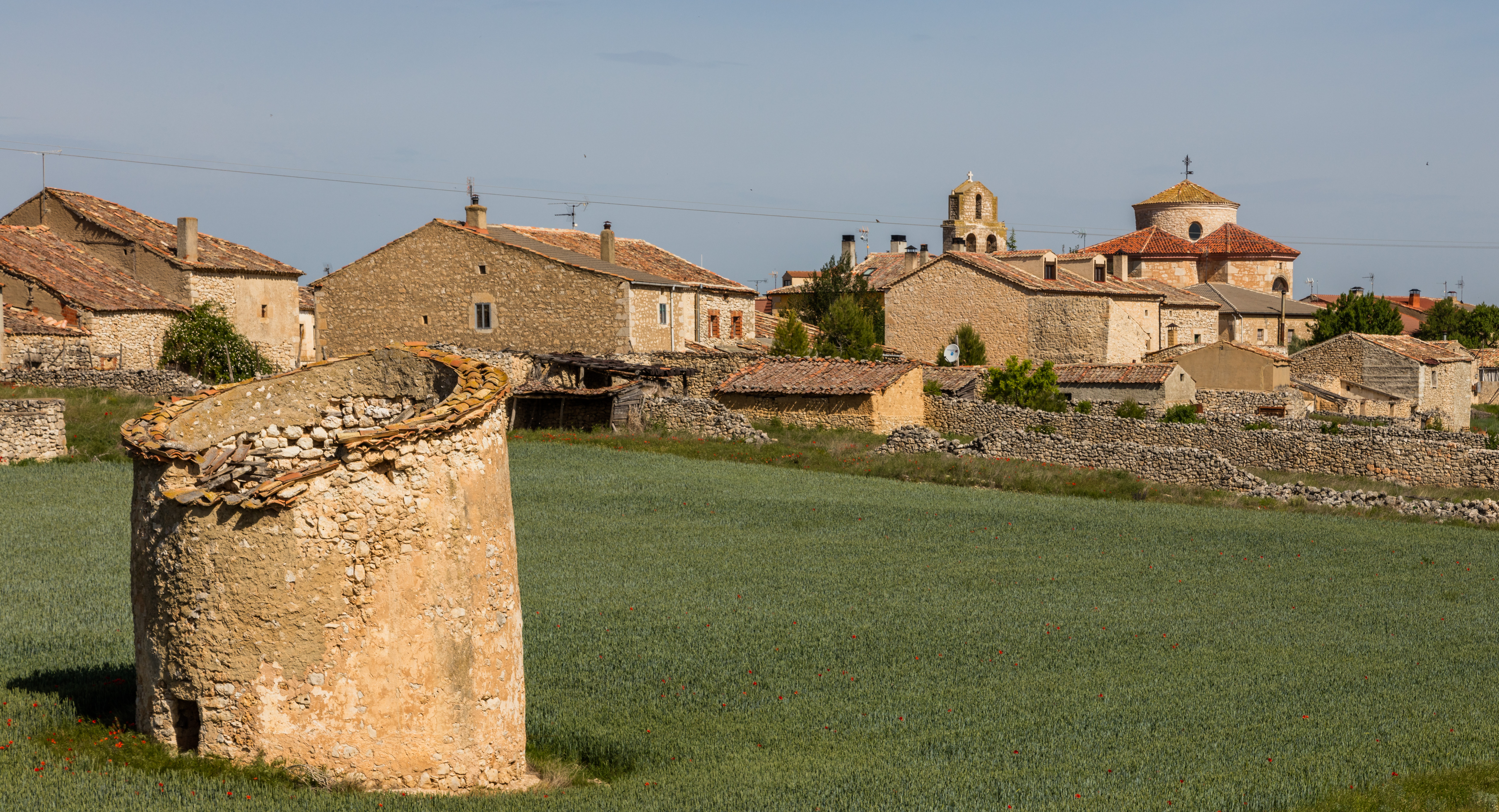 Morcuera, Soria, Spain